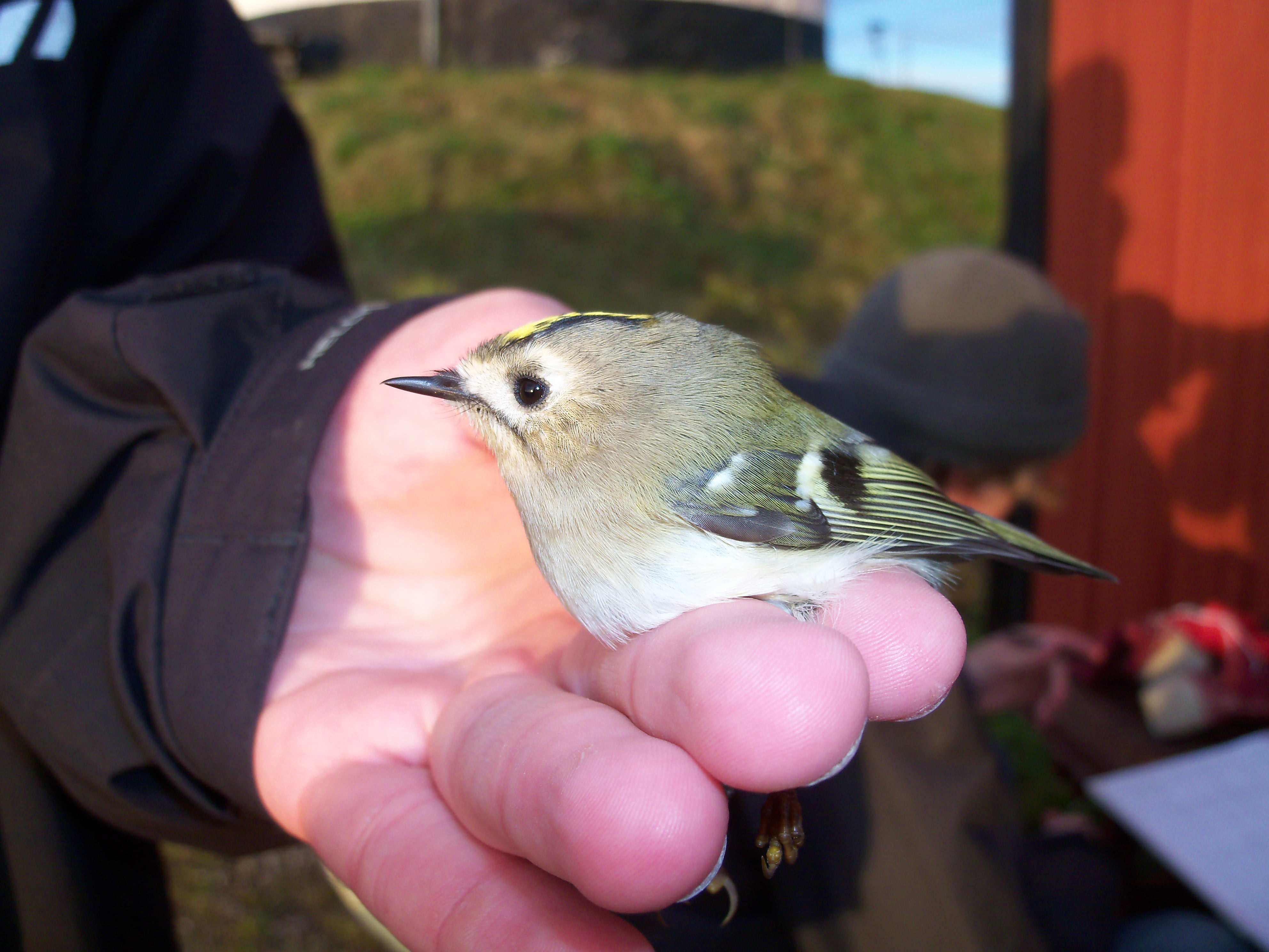 A Goldcrest (Regulus regulus) ringed at Landsort Lighthouse on the south cape of the island Öja (Landsort) ,south of Nynäshamn in Södermanland in Stockholm County in Sweden. Landsort Bird Observatory is responsible for the ringing.